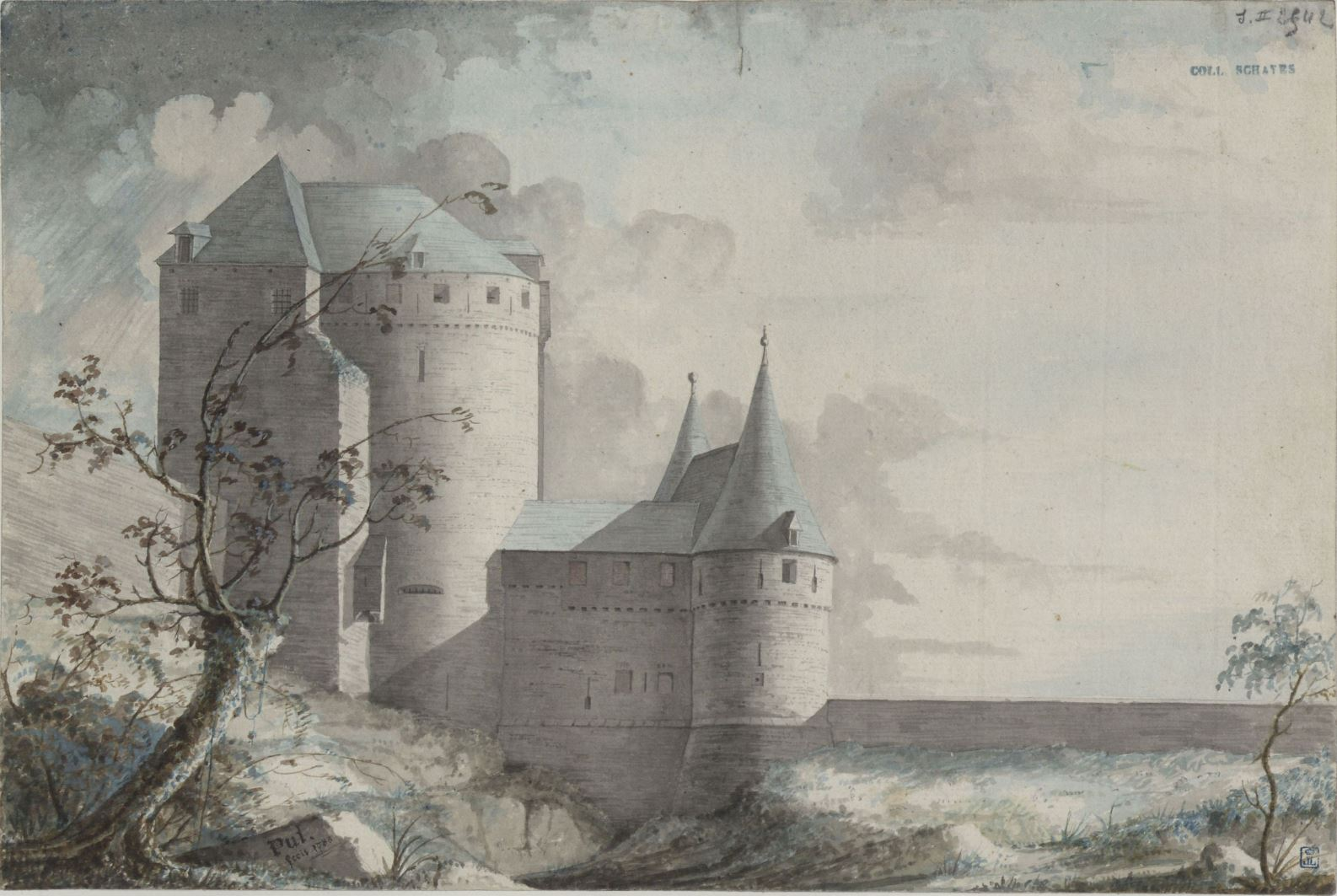 View of the Leuven Gate in Brussels - PUL Vitzthumb fecit 1786 - 216 x 322 mm